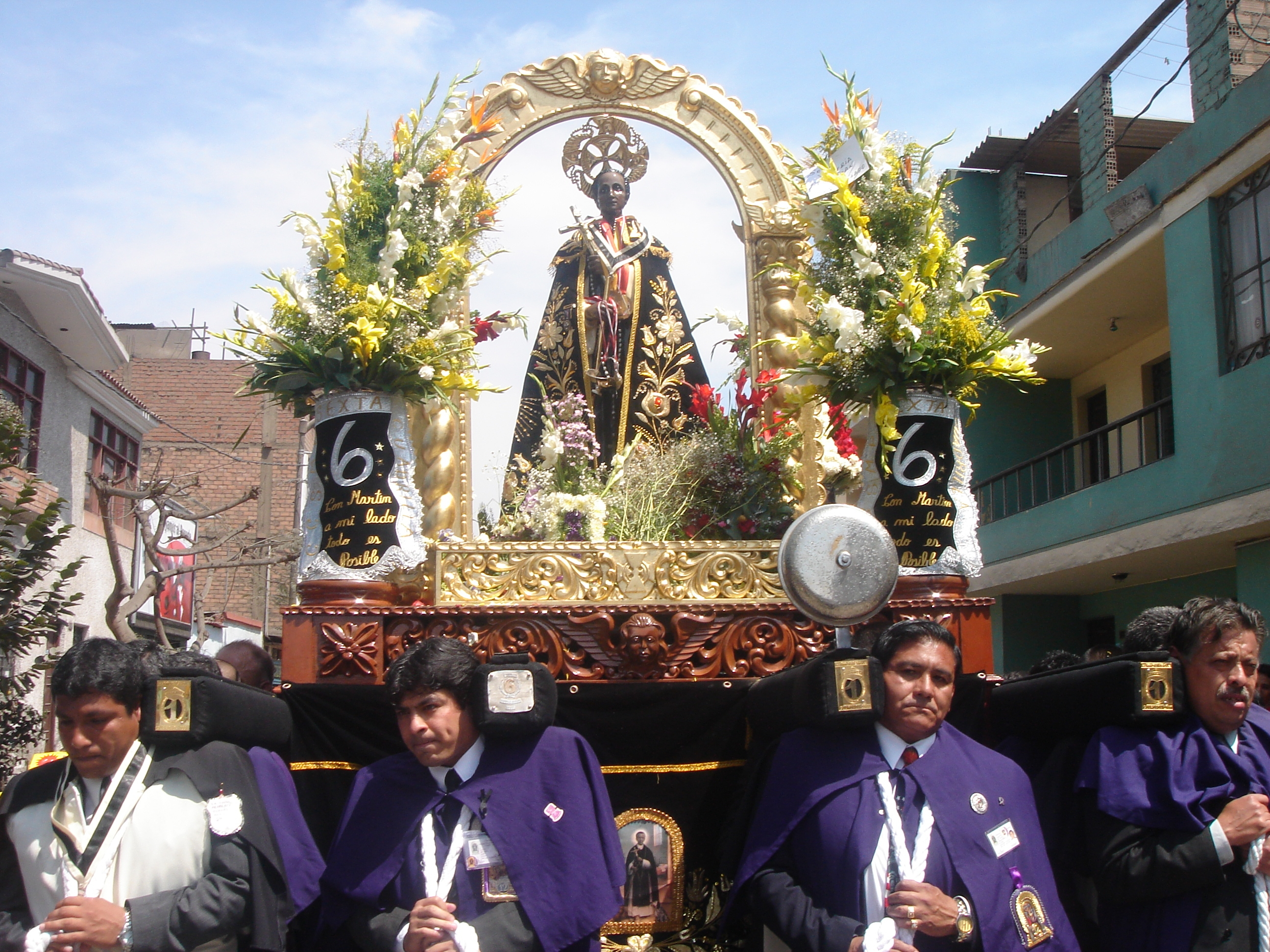 San Martín de Porres (San Martín de Porres District) 2007.